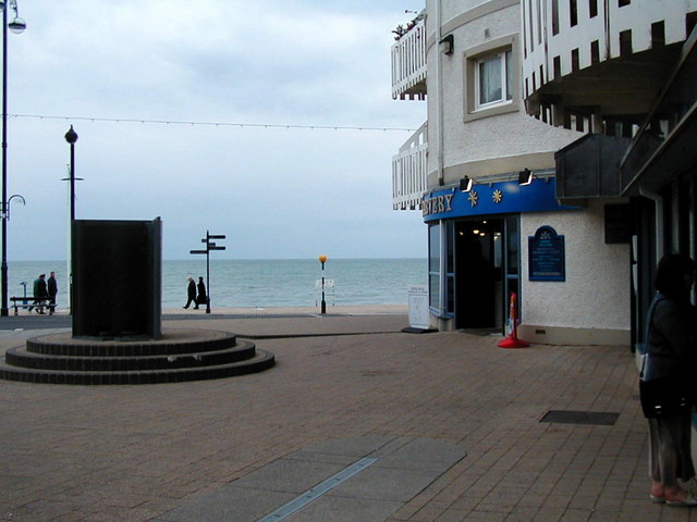 King's Hall Carvery Restaurant, Aberystwyth On the seafront and on the site of the Old King's Hall.